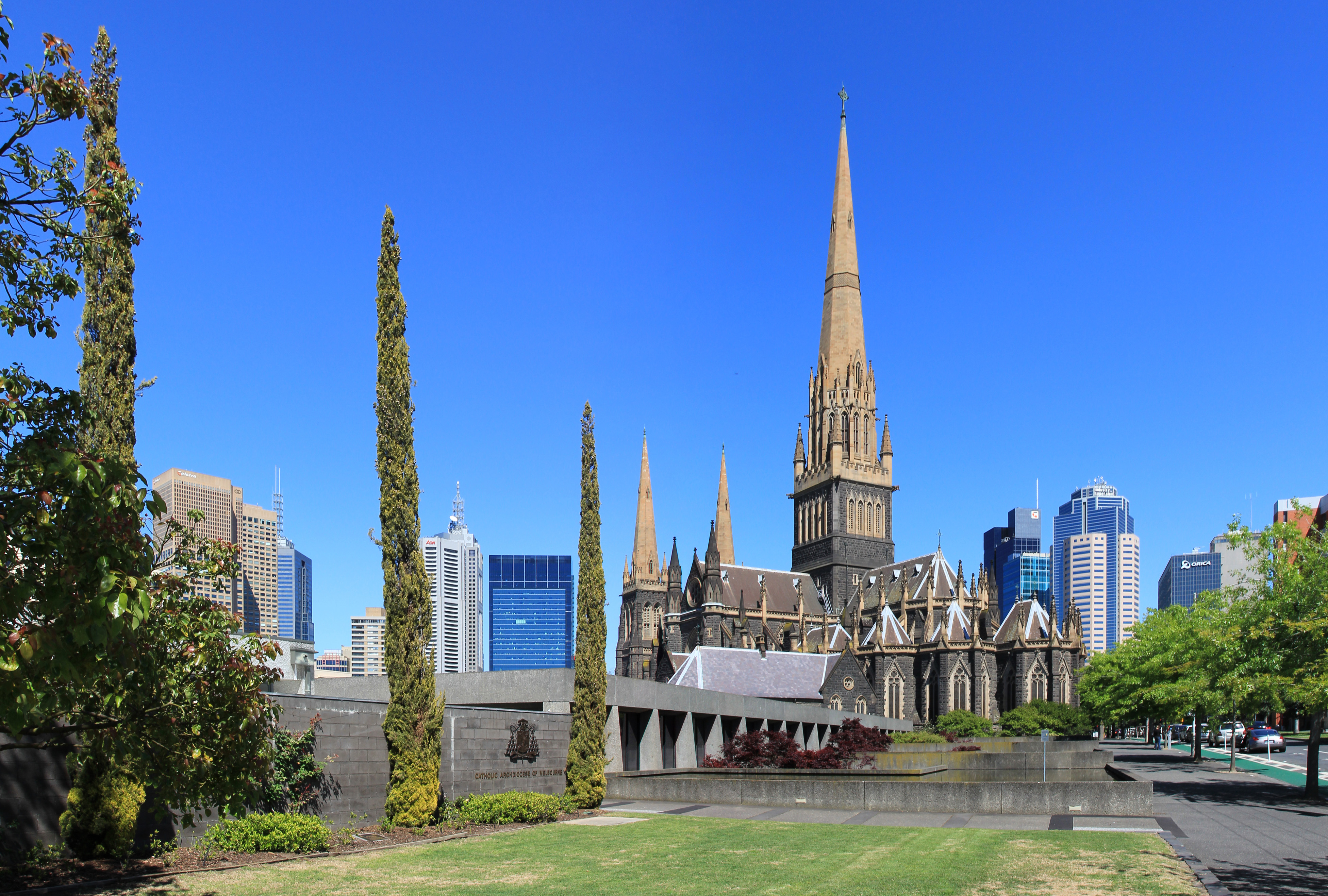 Gothic revival architecture of the St Patrick’s Cathedral central tower